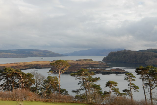 Calve Island, Tobermory Bay, seen from Tobermory Golf Course